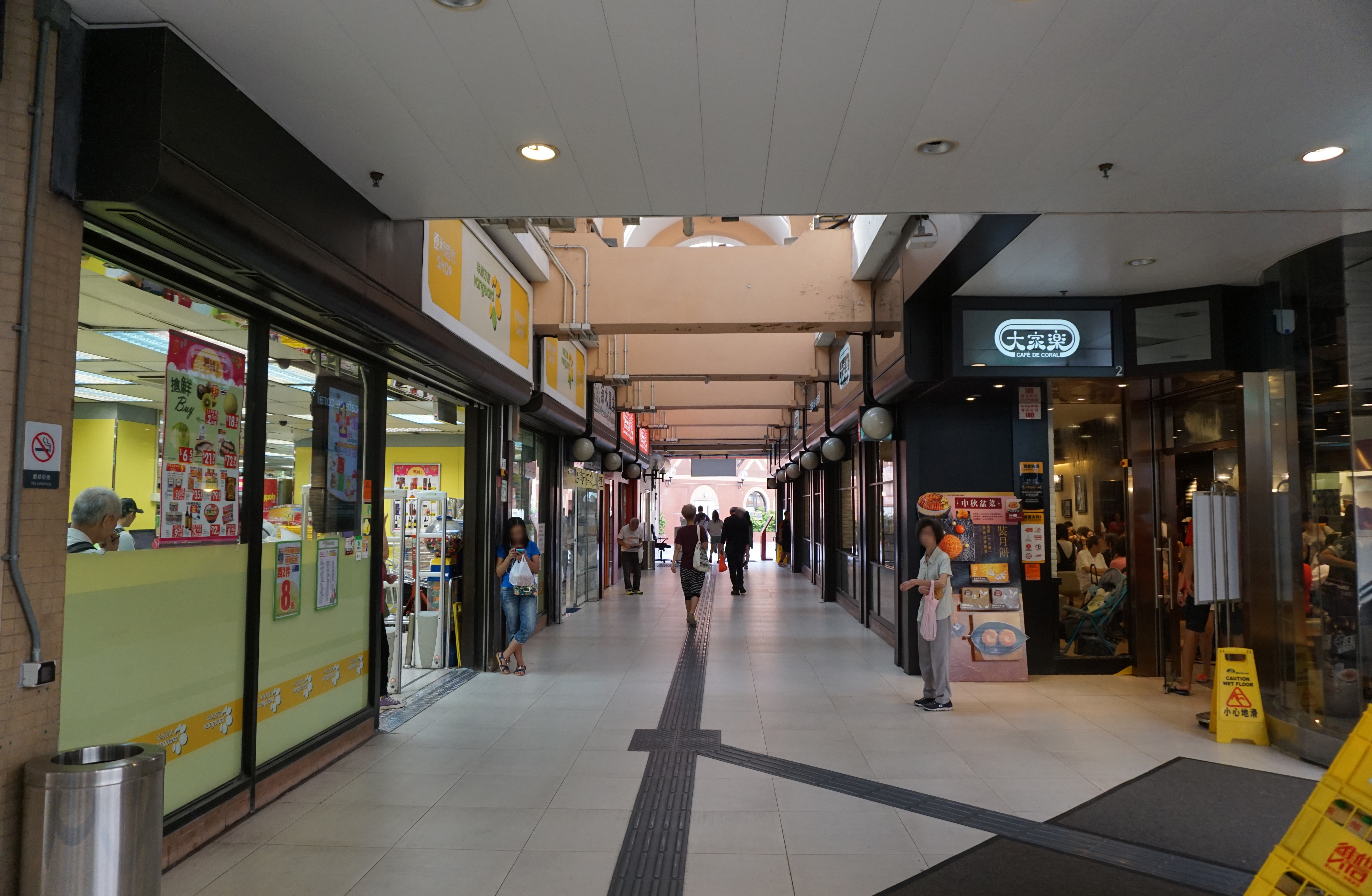 Yin Lai Court Shopping Centre in Lai King, Hong Kong.